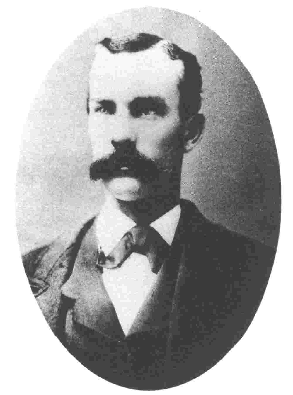 The only known photograph of John Peters Ringo.